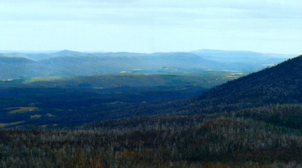 View east from summit of 2,320 ft. Butler Knob on Jacks Mountain.